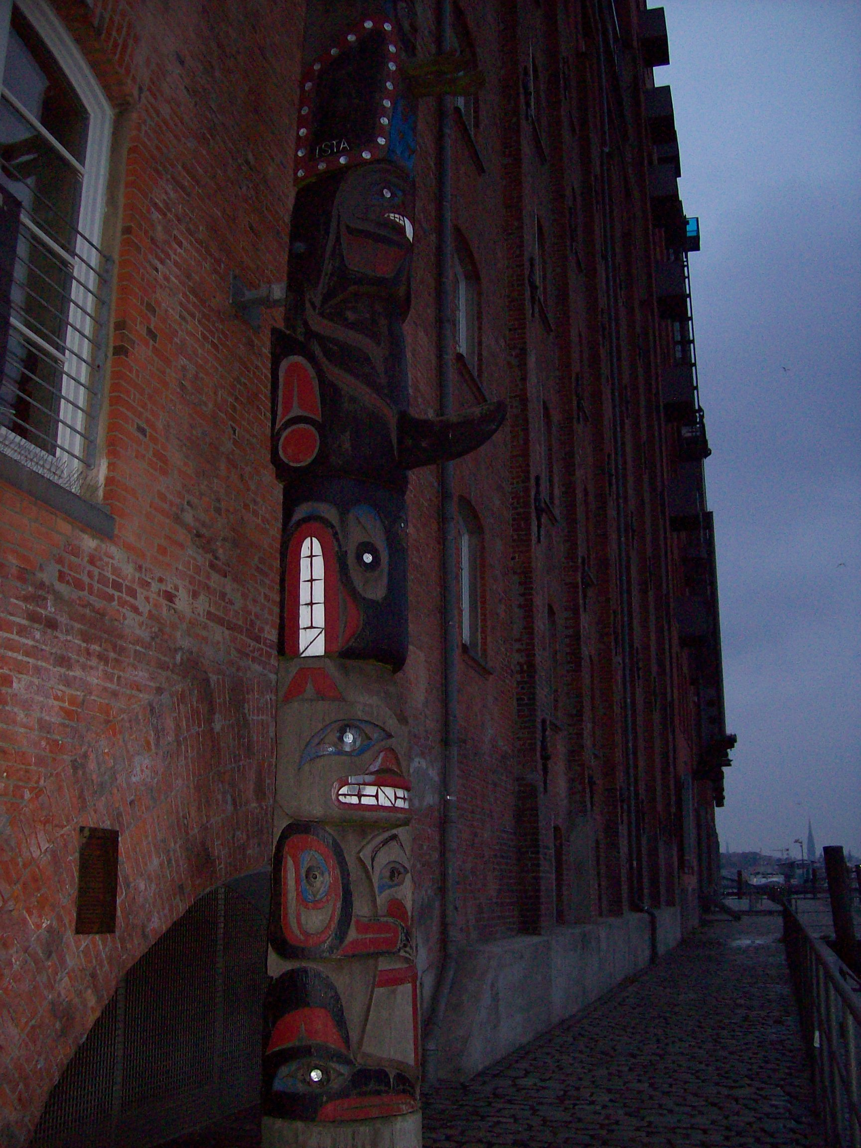 Totem poles in front of Greenpeace Building in Hamburg made by Nuxálk-Nation